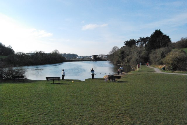 Radford Lake A view of Radford Lake in the late February sunshine.